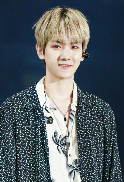 Byun Baek-hyun at Lotte Family Concert on June 23, 2018.